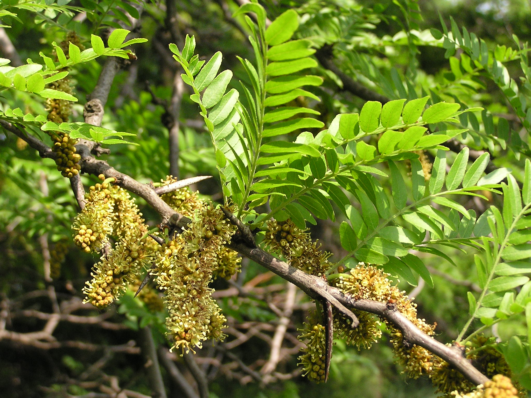 Gleditsia triacanthos